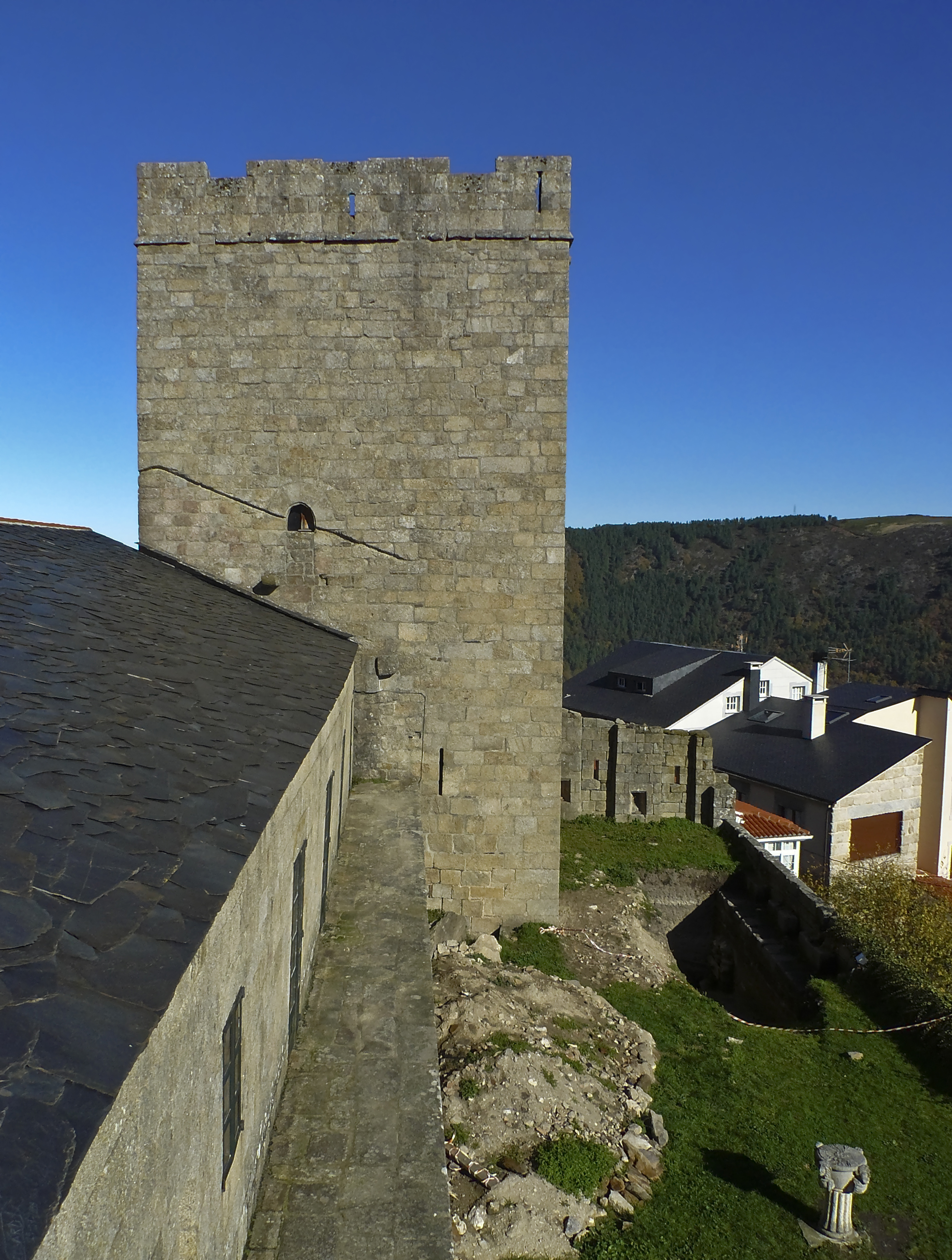 Romanic keep of Castle of Castro Caldelas - Ourense - Spain